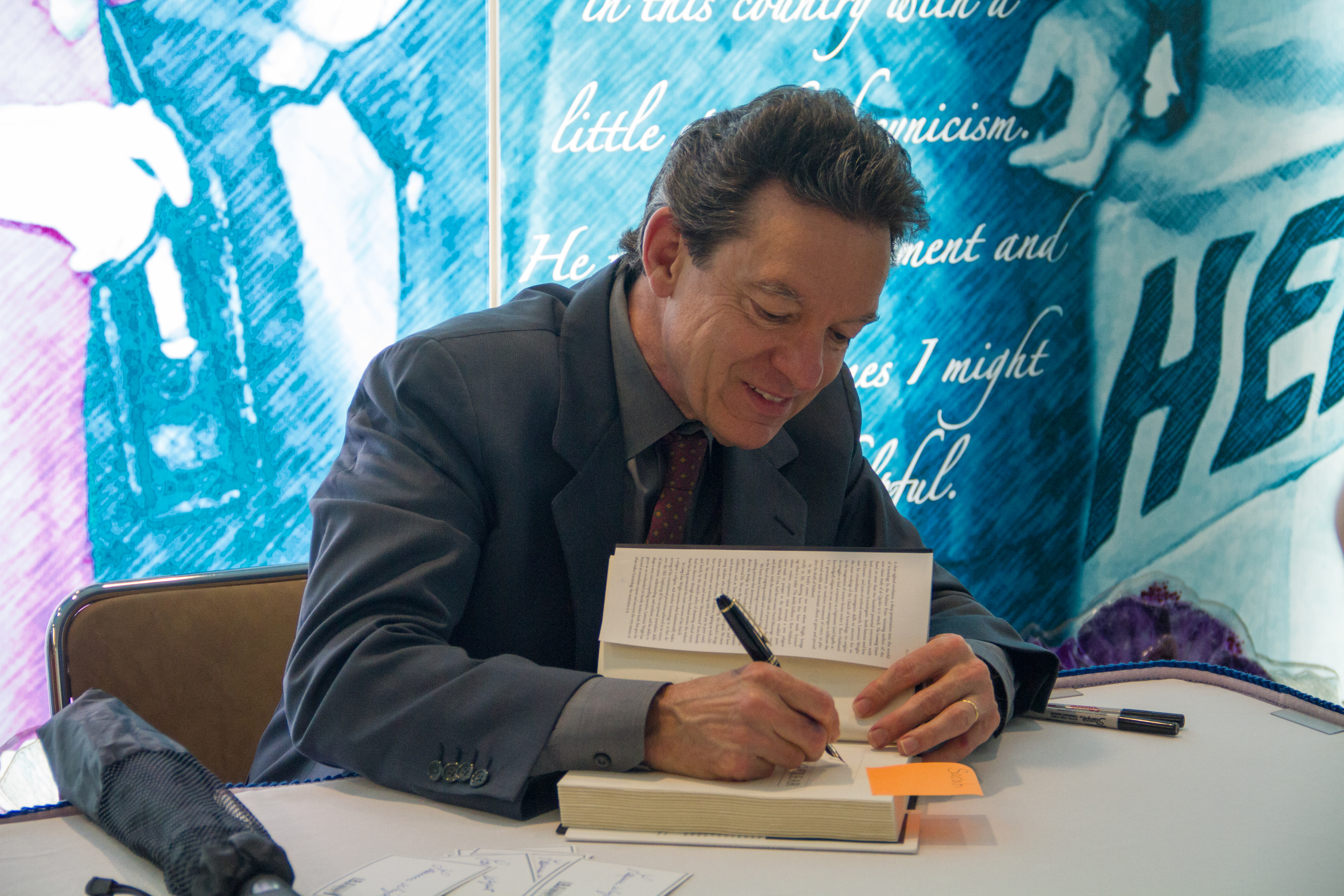 Pulitzer Prize-winning author Lawrence Wright discusses his new book "Going Clear: Scientology, Hollywood, and the Prison of Belief" with director Mark Updegrove at the LBJ Presidential Library. Photo by Lauren Gerson.